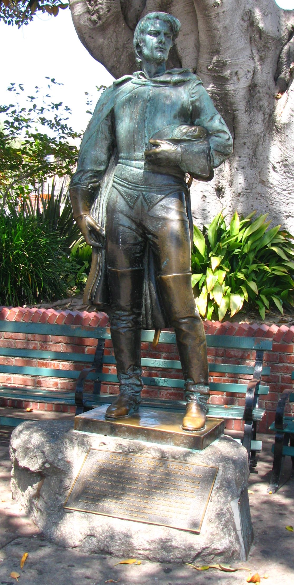 Statue of Felipe de Neve, Spanish colonial Governor of Las Californias, in the Los Angeles Plaza. The inscription reads: "Felipe de Neve (1728-84). Governor of California 1775-82. In 1781, on orders from King Carlos III of Spain, Felipe de Neve selected a site near the River Porciuncula and laid out the town of El Pueblo de La Reina de Los Angeles, one of two pueblos he founded in Alta California."